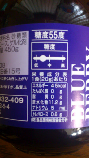 Sugar level label on a jam bottle in Japan